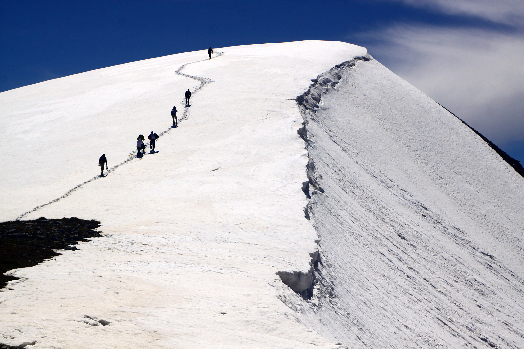 Hiking towards Koritnik summit which stands 2395 m high